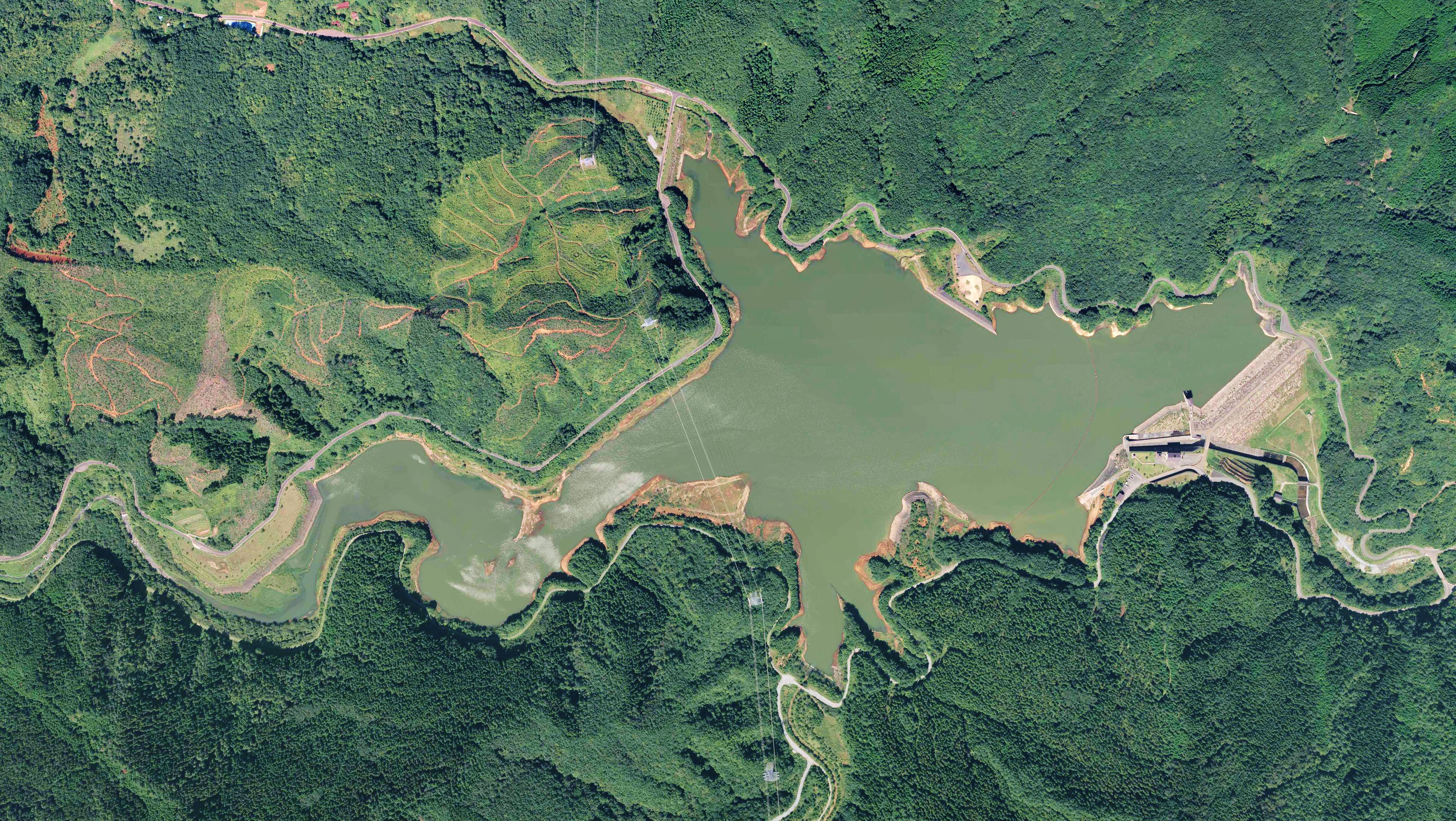 Matsugabo Dam.